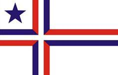 Flag of Palotina, Paraná, Brazil.